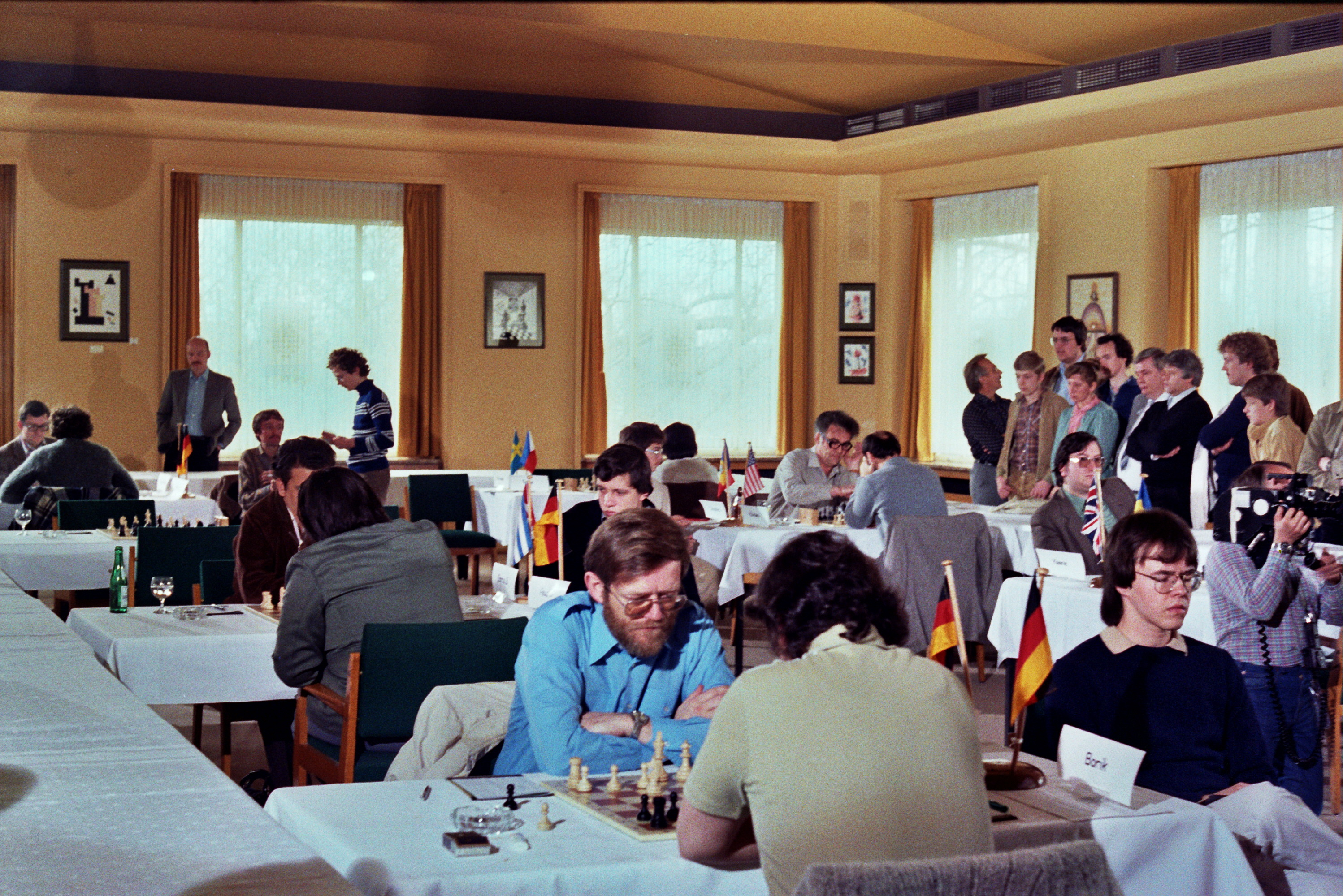 Tournament hall of the International German Chess Championship 1981 at Bochum, Photographer Gerhard Hund.